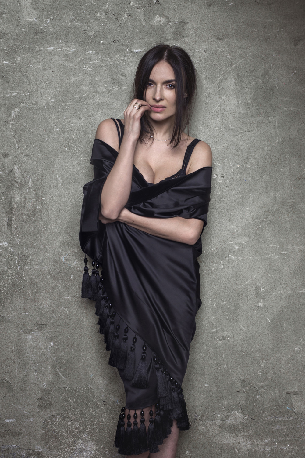 Nadezhda Meyher-Granovskaya 2016